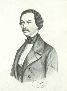 French novelist and playwright Auguste Maquet (1813-1888). Lithograph by C. Faber, 1847